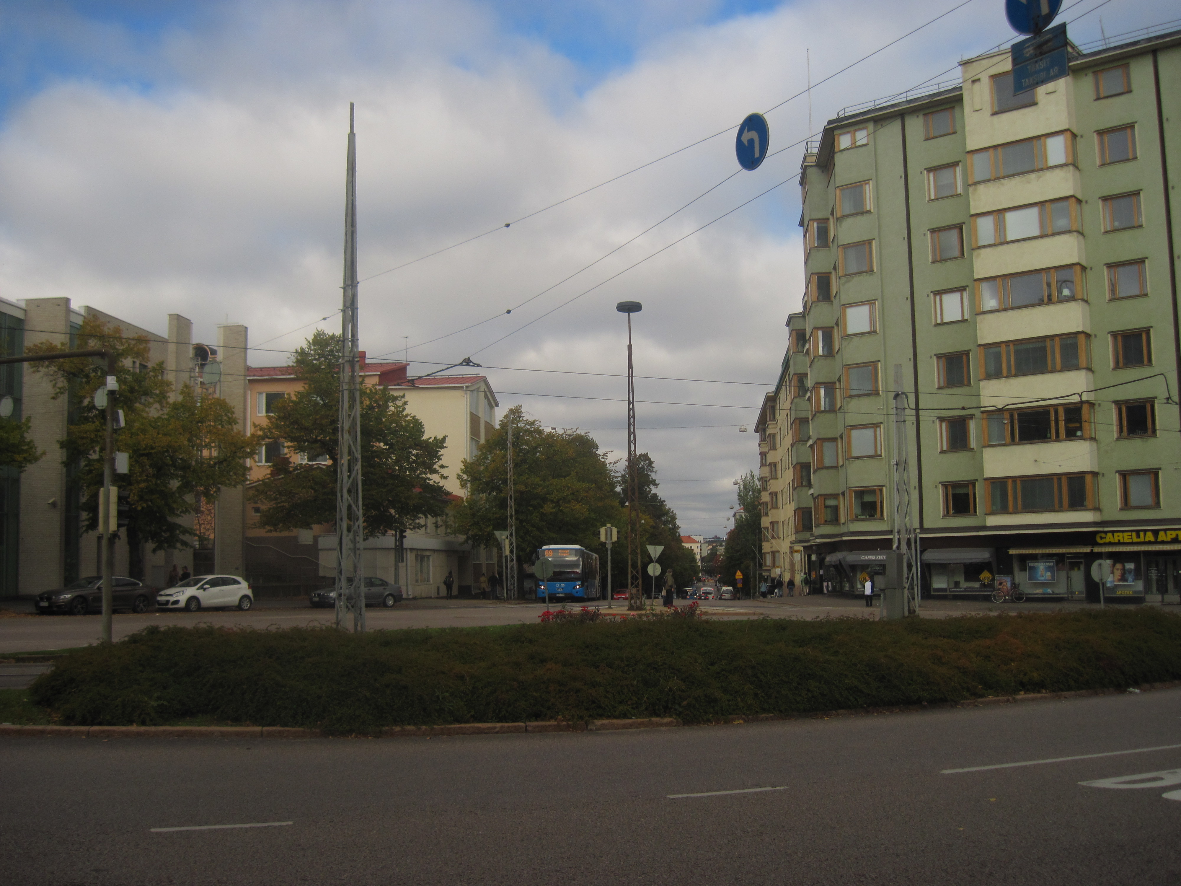 Topeliuksenkatu in Helsinki as seen from its southern end